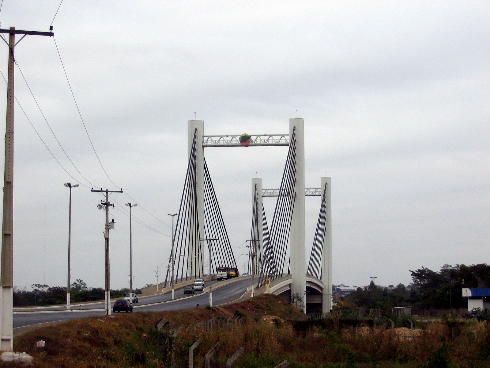 Sérgio Motta Bridge, in Cuiabá, Mato Grosso, Brazil